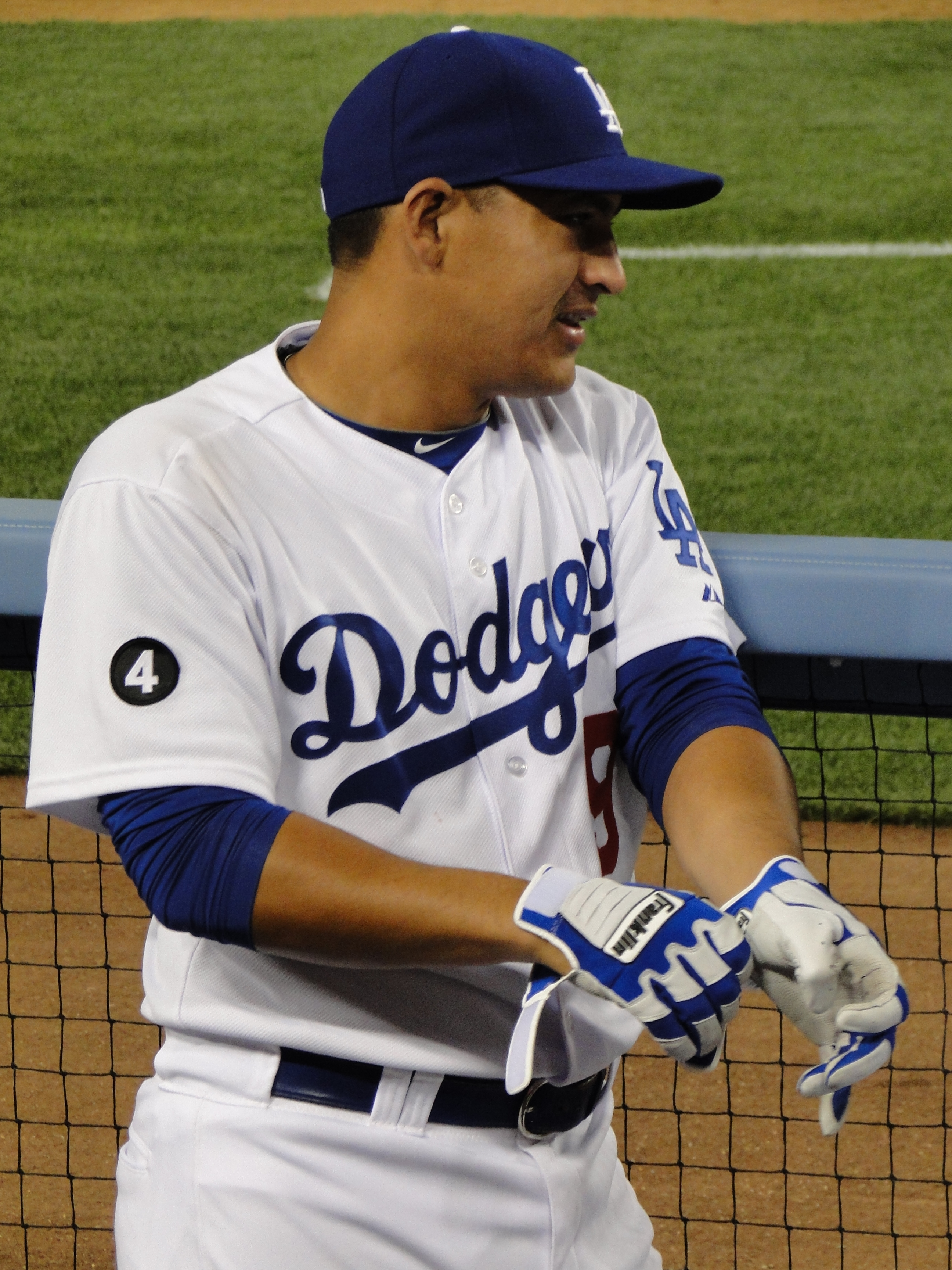 Héctor Giménez in Dodgers dugout.